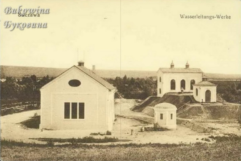 The Water Plant in Suceava - photo from early 20th century.